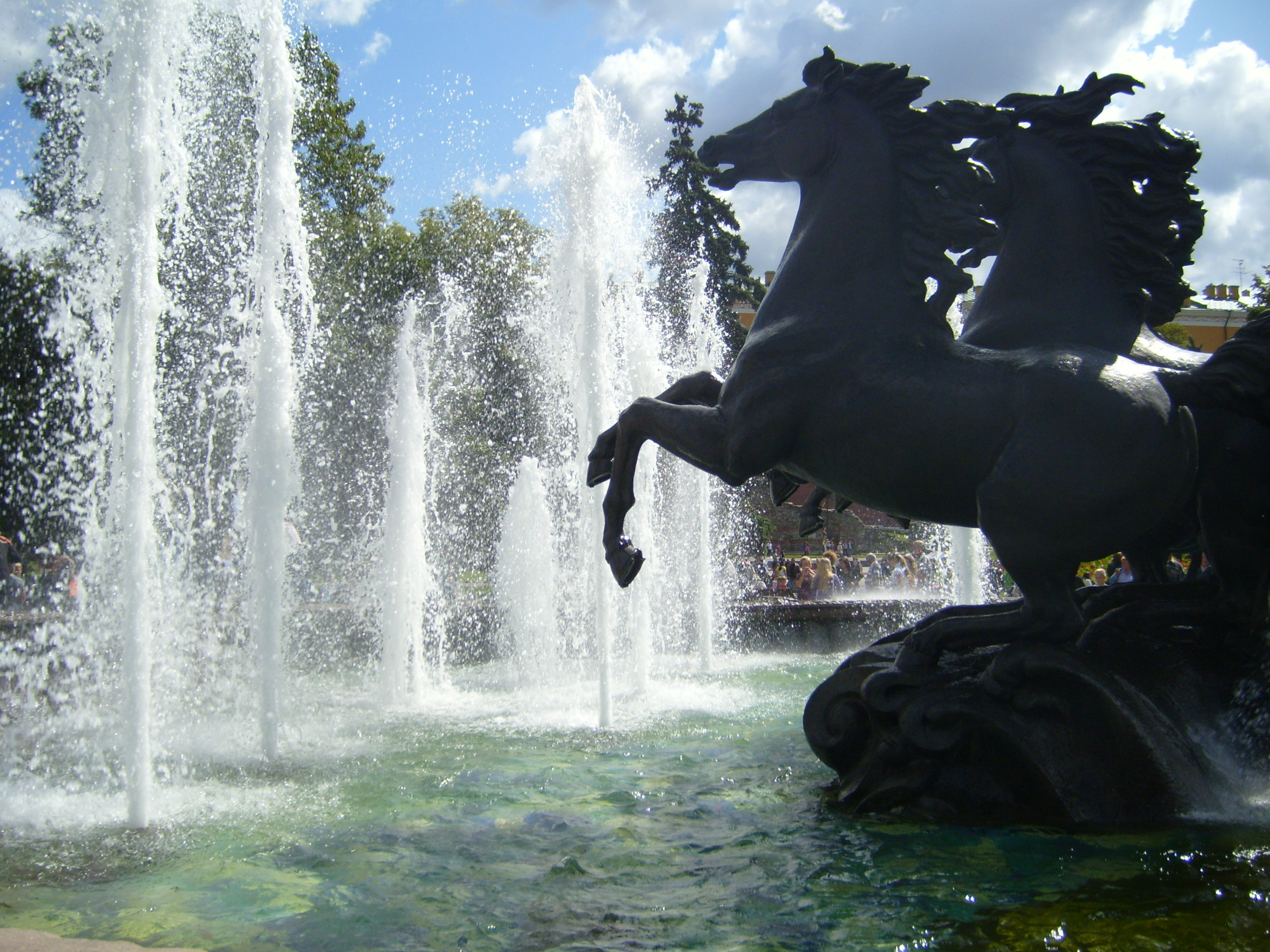 Fountain "Four Seasons of the Year" by Zurab Tsereteli, on Manège Square in Moscow, Russia. Opened in 1996.